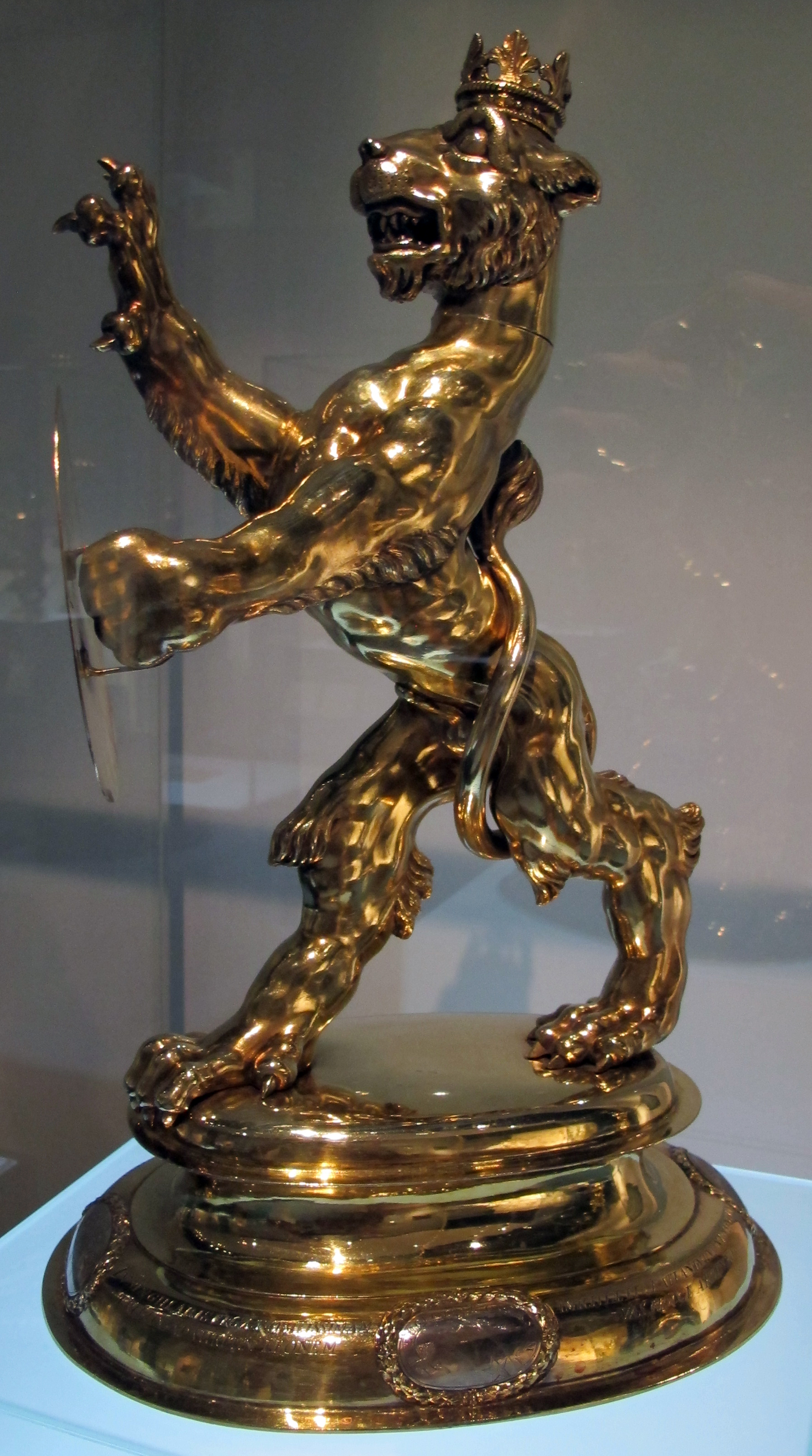 Bernese Collection of the Historisches Museum Bern